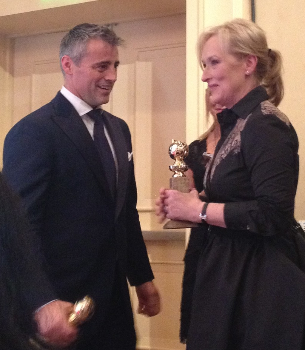 69th Annual Golden Globes Awards.